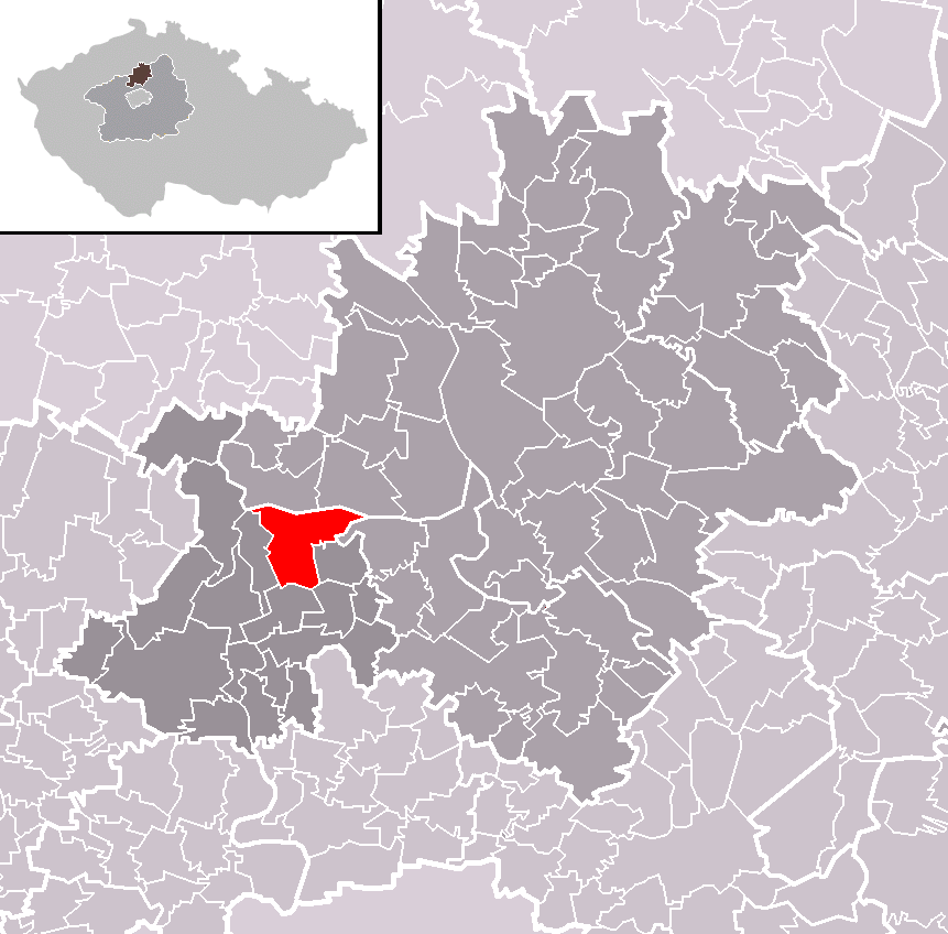 Location of Vojkovice municipality within Mělník District and administrative area of Kralupy nad Vltavou as a Municipality with Extended Competence.